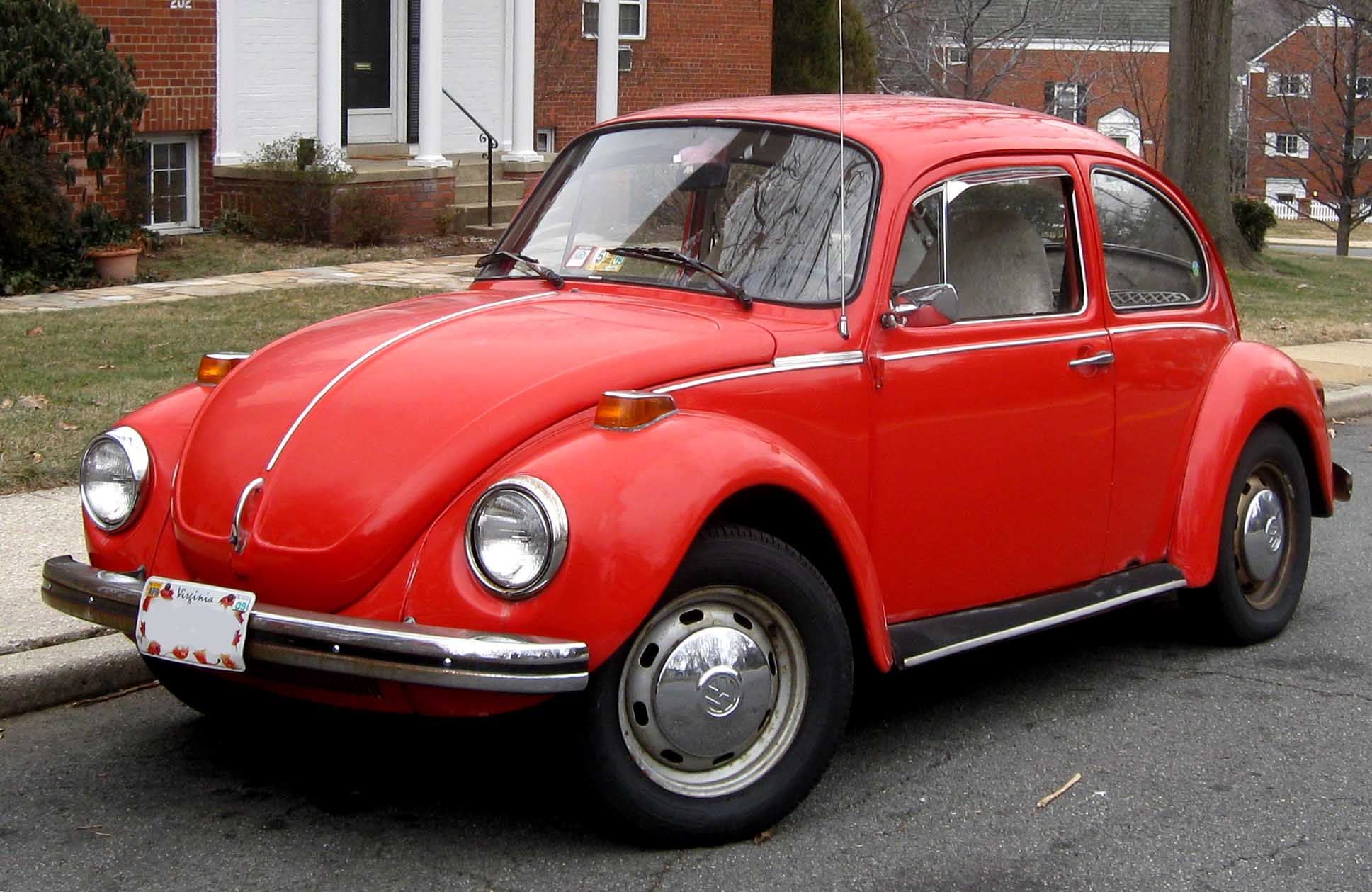 1973 Volkswagen Super Beetle photographed in Alexandria, Virginia, USA.